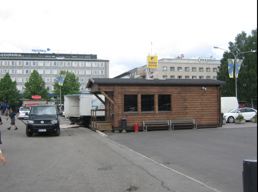 Joensuu market place taxi station